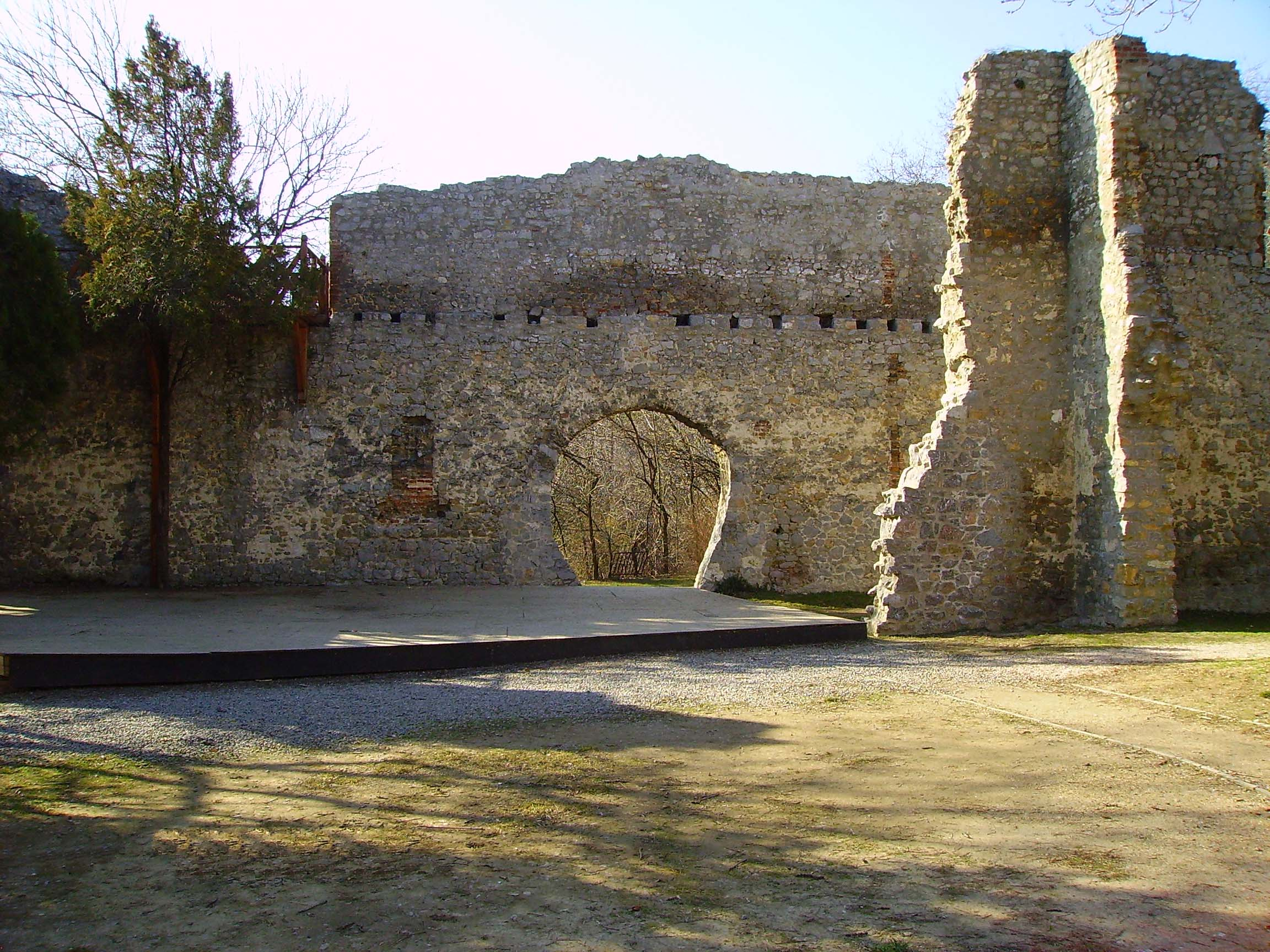 Ruins in Tettye